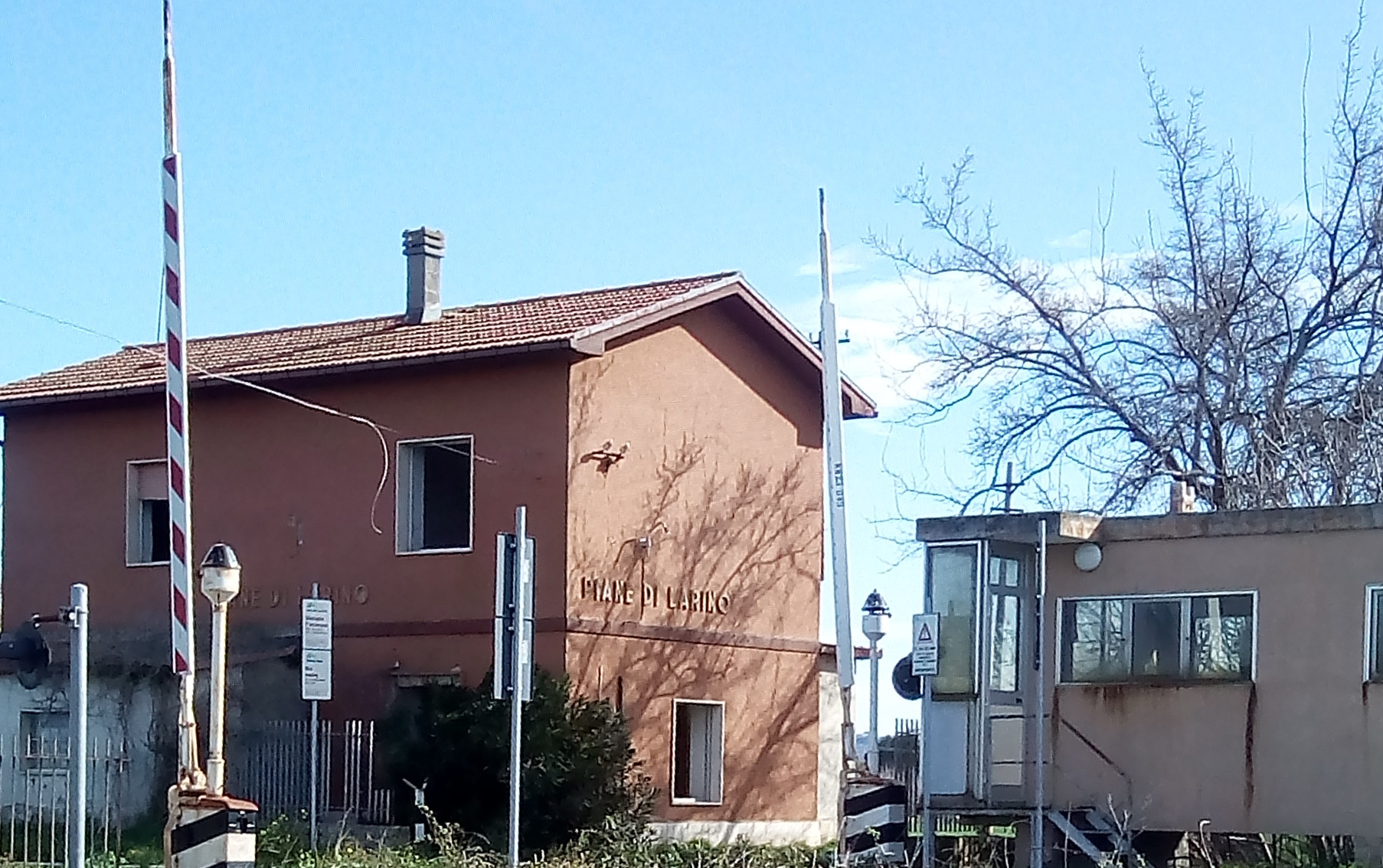 Piane di Larino Train Station (not in service, closed)